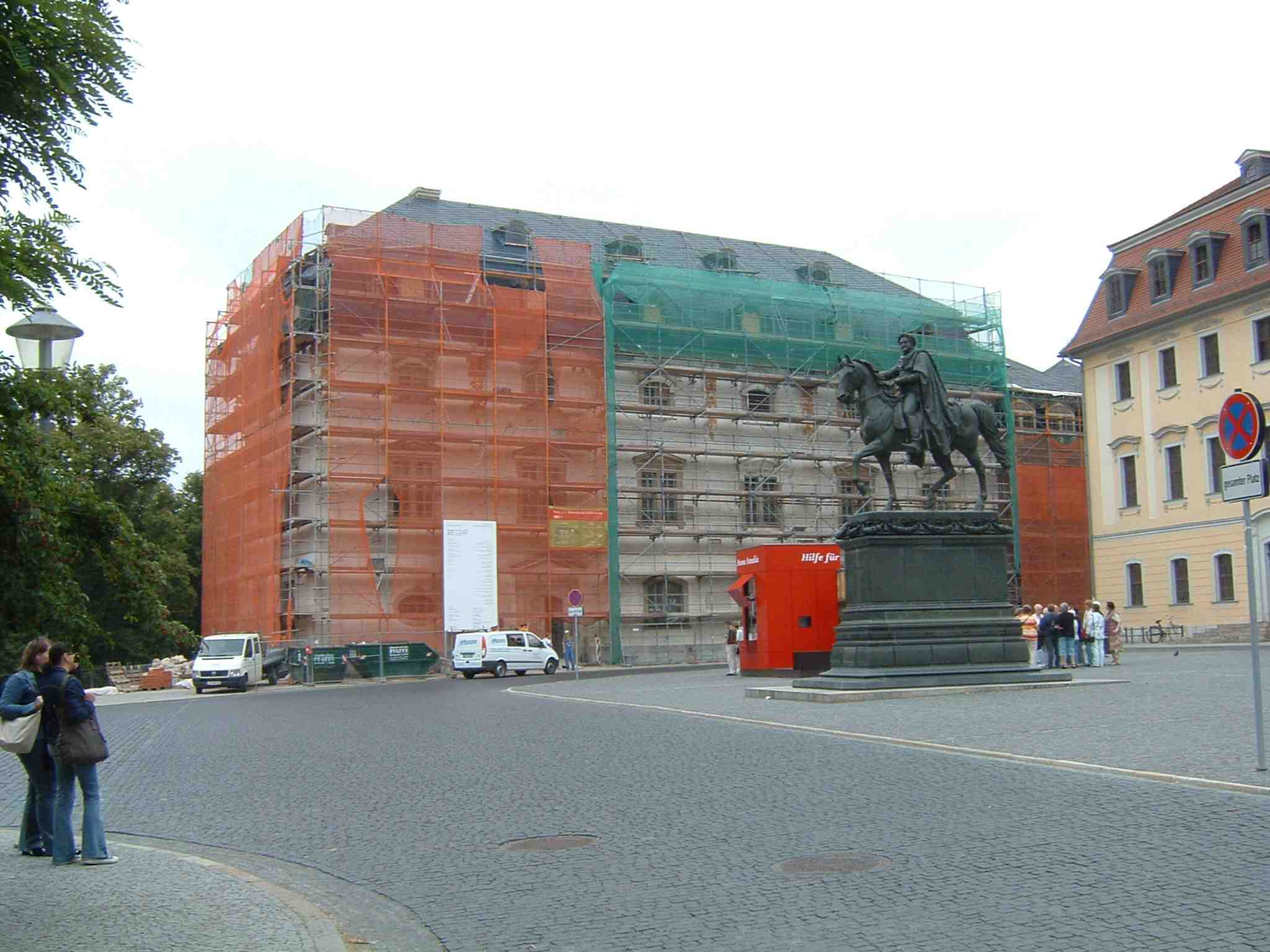 Anna Amalia Library in Weimar, Germany, during reconstruction